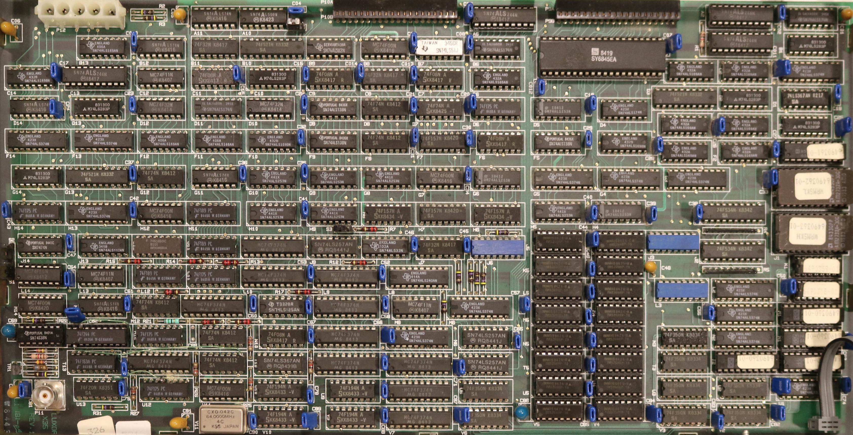 This is the graphics card from the Luxor ABC 1600 computer.